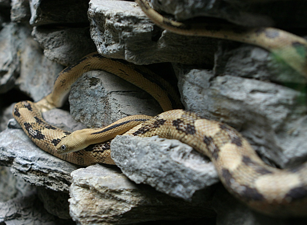 Bogertophis subocularis Trans-Pecos Rat Snake at the Houston Zoo